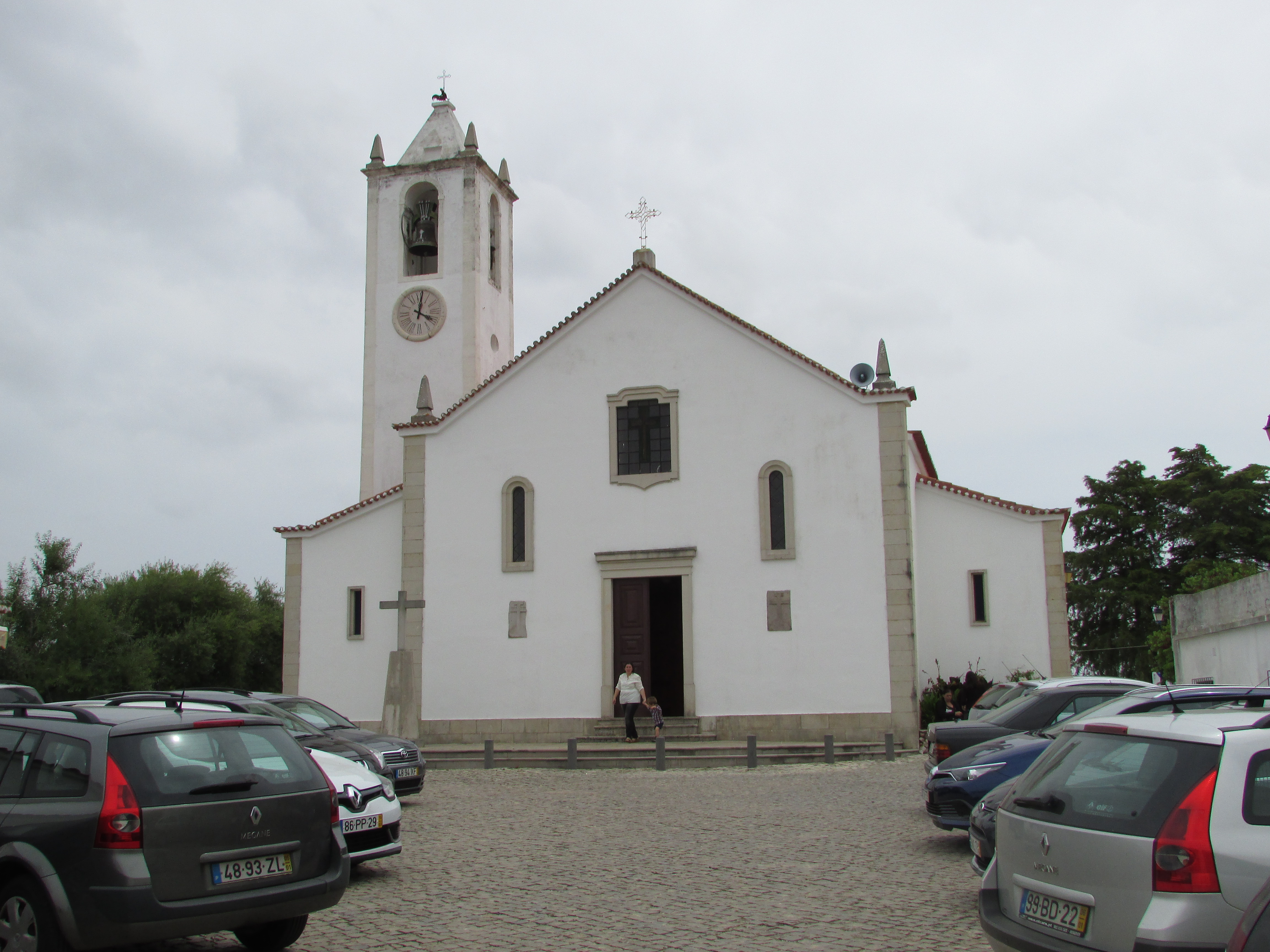 The parish church (Igreja de São Sebastião) located in the village of Salir, Algarve, Portugal.